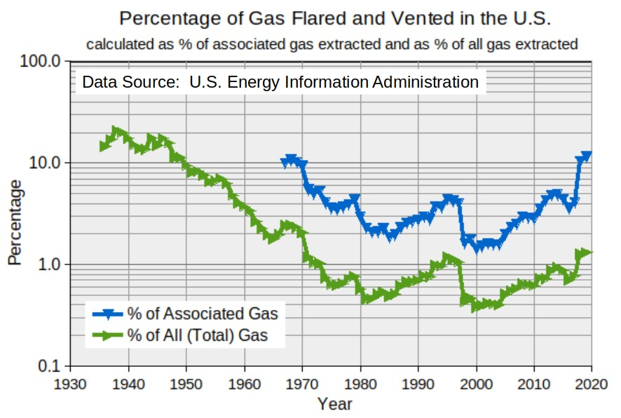 Natural gas extraction and flaring/venting data is from the U.S. Energy Information Administration.